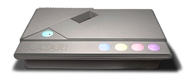 An Atari XE Game System computer.